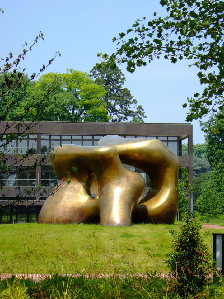 The sculpture Large Two Forms by Henry Moore in front of the former Federal Chancellery (today Federal Ministry for Economic Cooperation and Development) in Bonn. It is exhibited there since September 19, 1979.